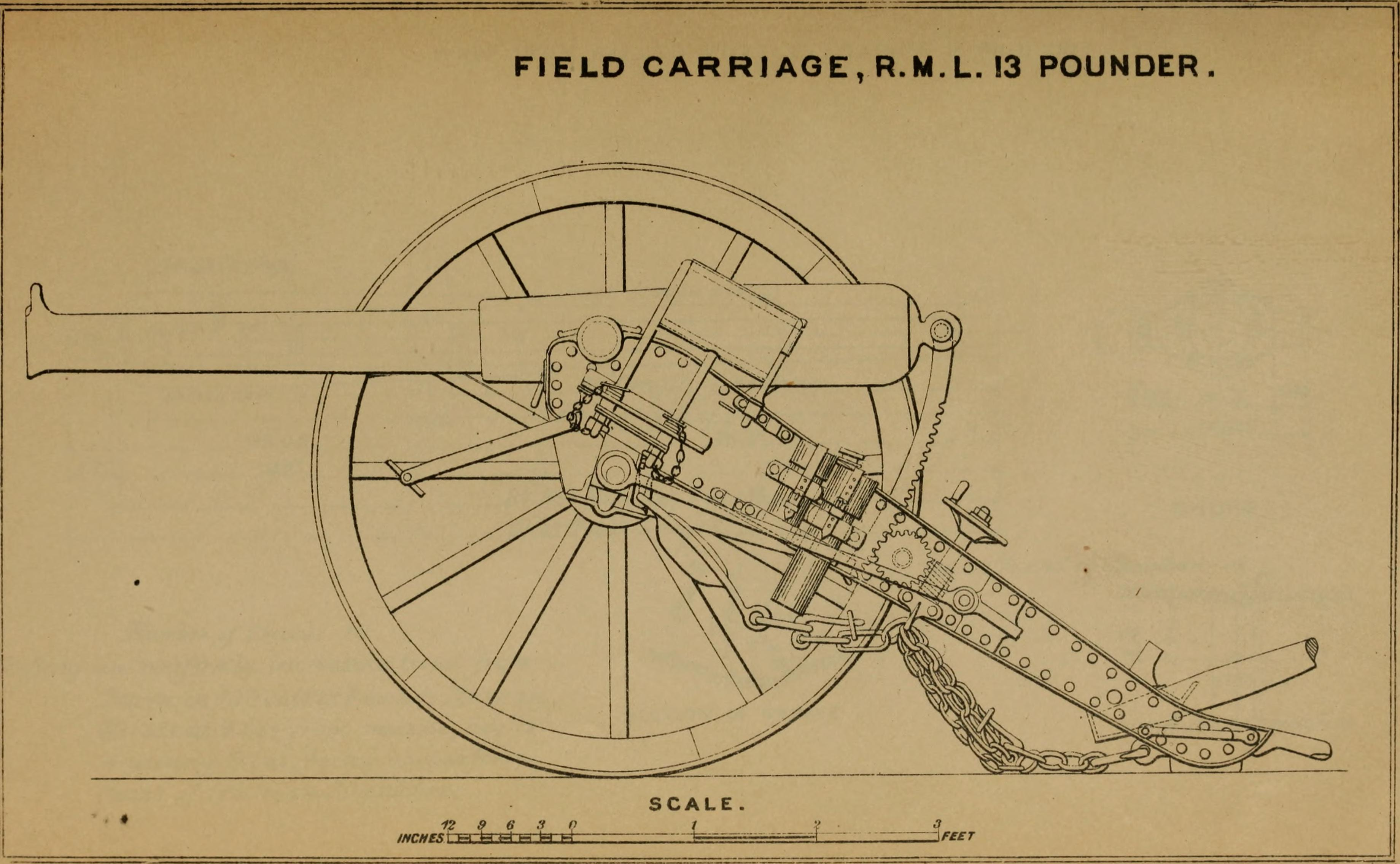 Title: Report of the British naval and military operations in Egypt, 1882 Year: 1883 (1880s) Authors: Goodrich, Caspar F. (Caspar Frederick), 1847-1925 Subjects: Publisher: Washington, Gov't print. off. Text Appearing Before Image: PLATE 73. Text Appearing After Image: PLATE